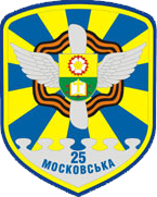 Shoulder sleeve insignia of the Ukrainian Air Force 25th Transport Aviation Brigade